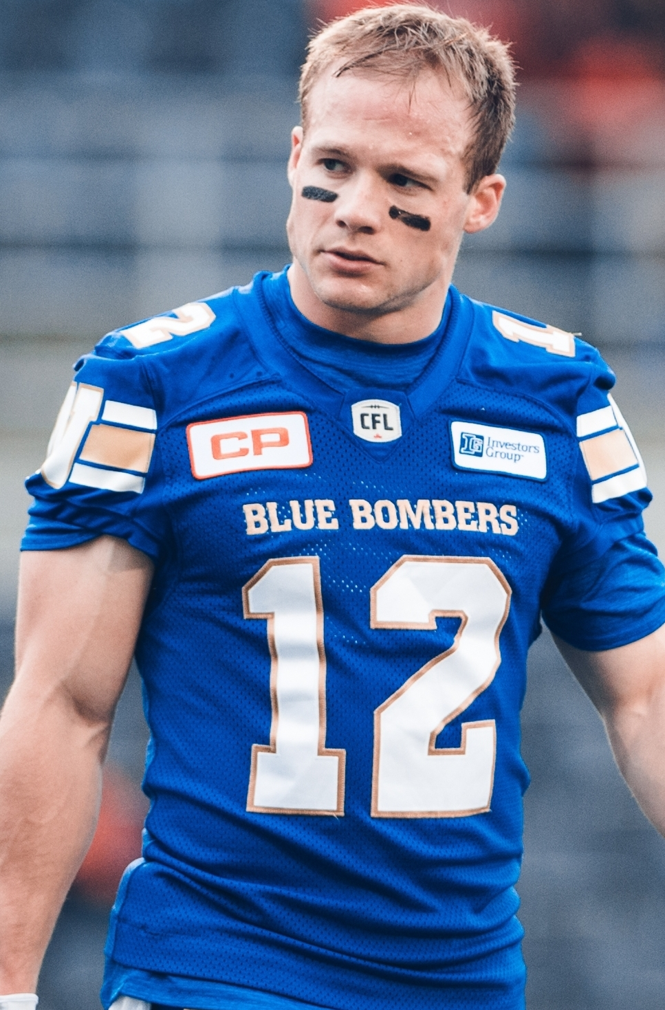 Ryan Smith (12) before the pre-season game at TD Place in Ottawa, ON on Monday June 13, 2016. (Photo: Johany Jutras)